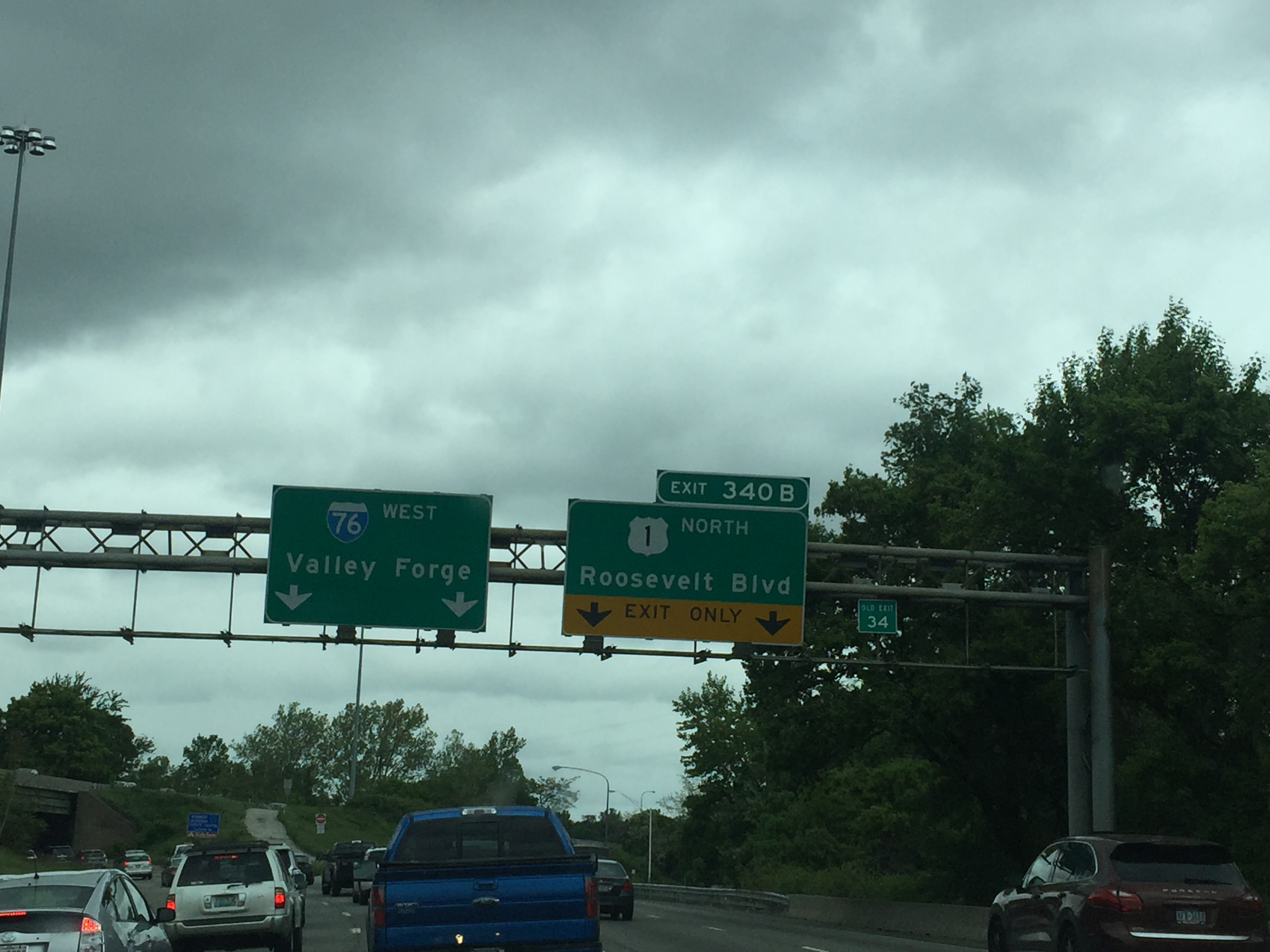 Roosevelt Boulevard exit